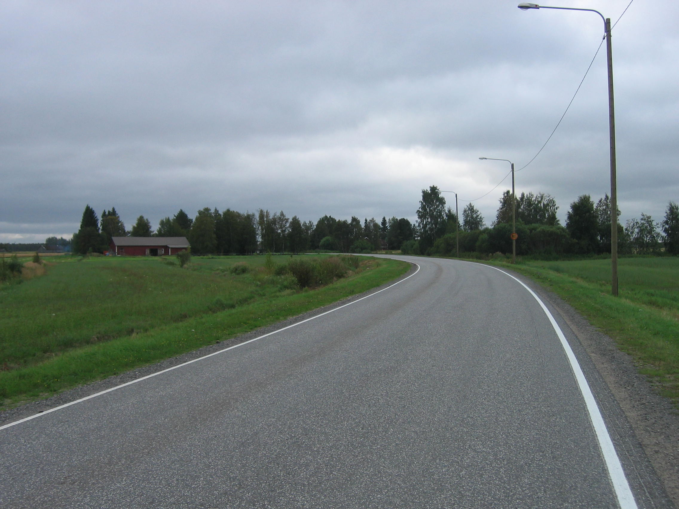 Connecting road 8250 in Muhos, Finland, seen towards Kylmälänkylä in South.